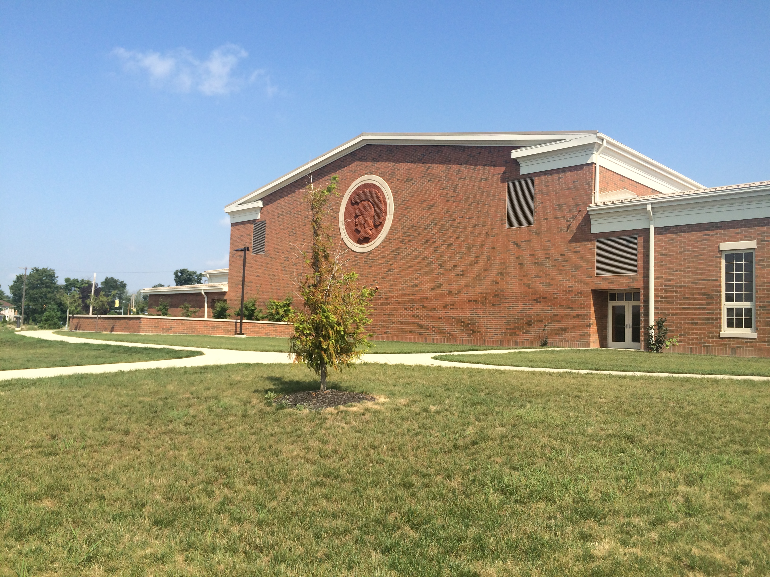 Findlay- Findlay North Middle School (COAF)